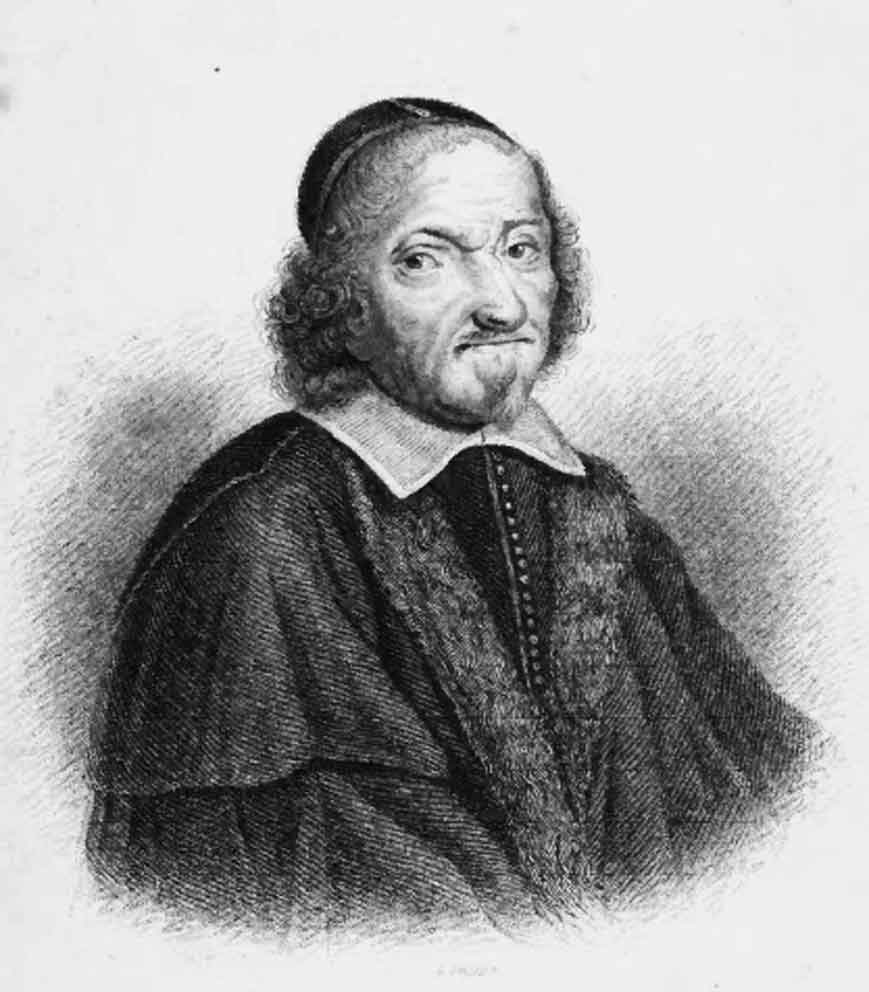 18th century? engraving from a 1533 portrait. Portrait of Coverdale from the 1837 edition of the Letters of the Martyrs